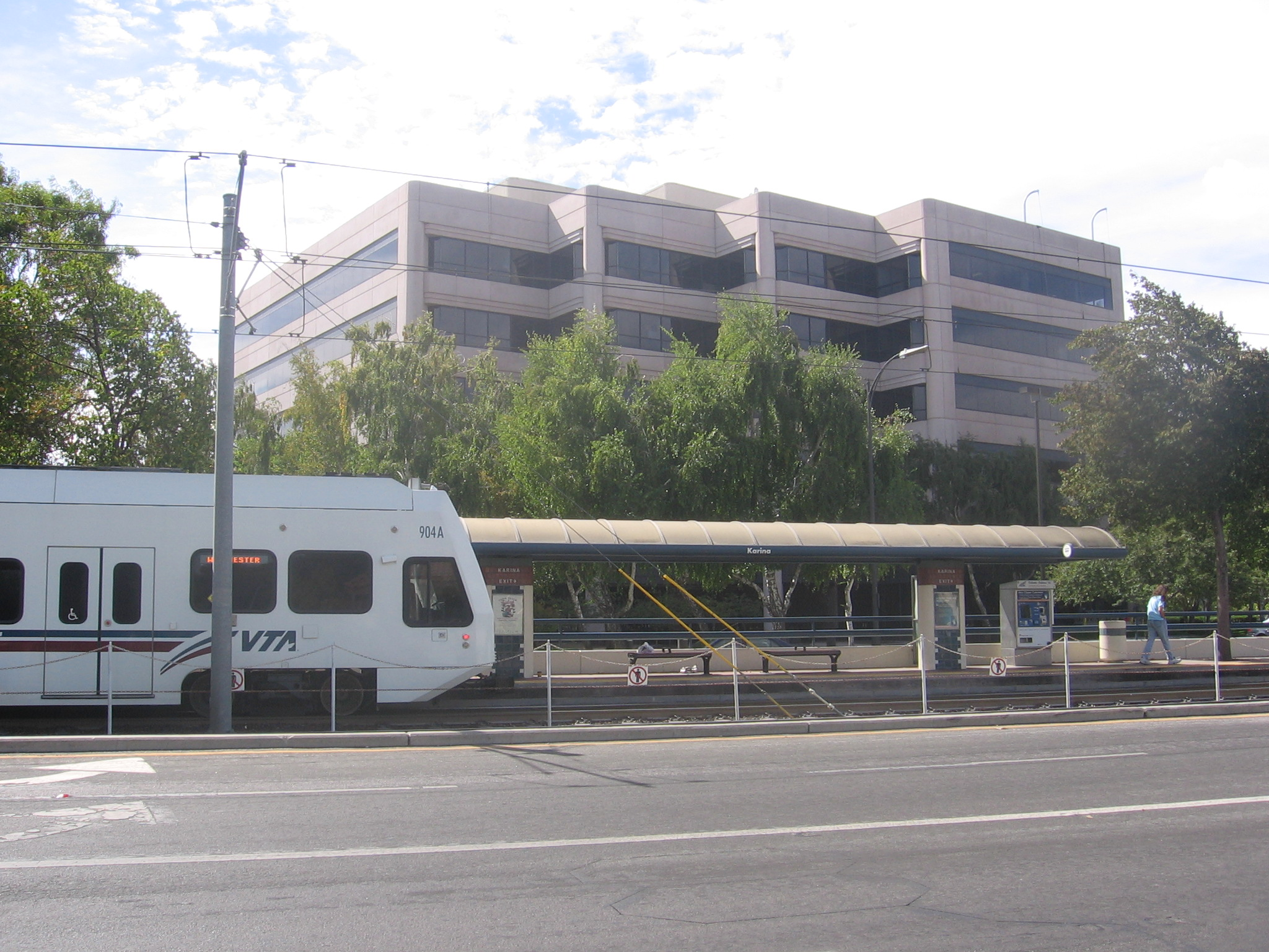 The Karina (VTA) light rail station in San José, California, USA.